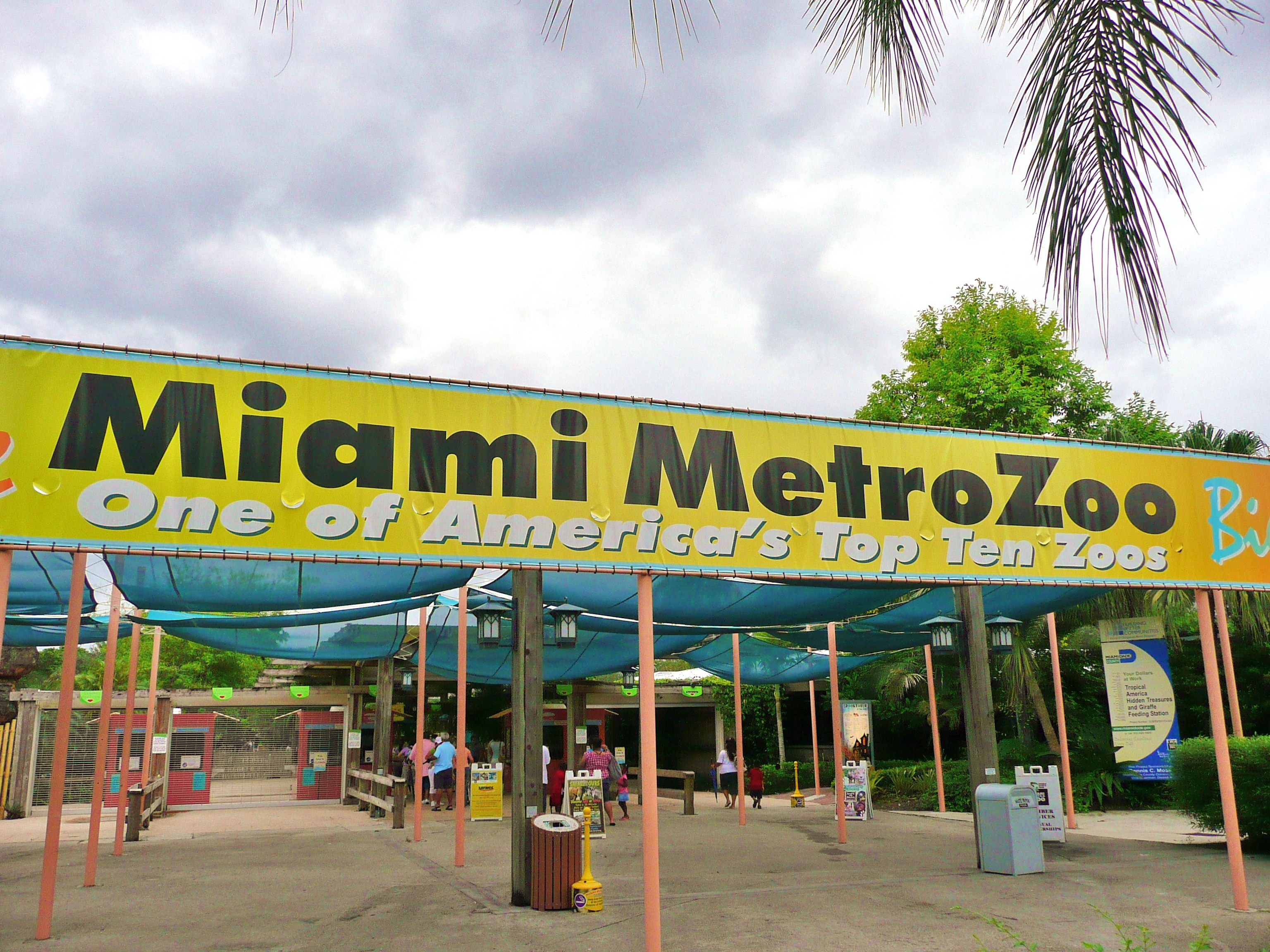 Digital photo taken by Marc Averette. Entrance banner at Miami's MetroZoo.